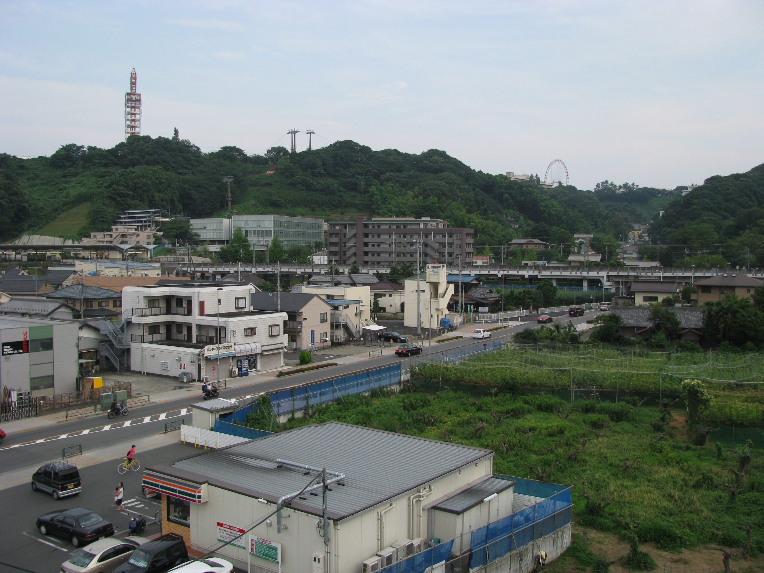 View of the Inagi in Tokyo, Japan.